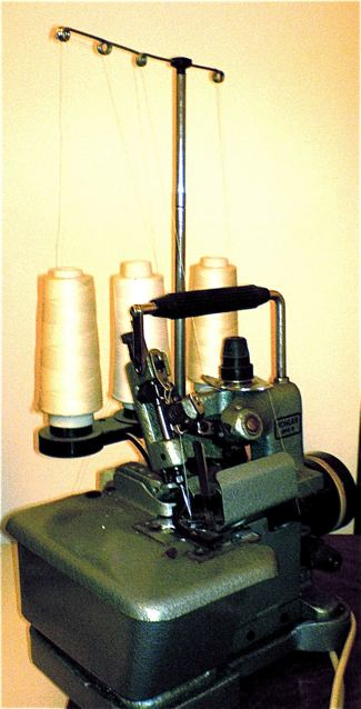 A simple three-thread-lockmachine from the trade "Köhler".